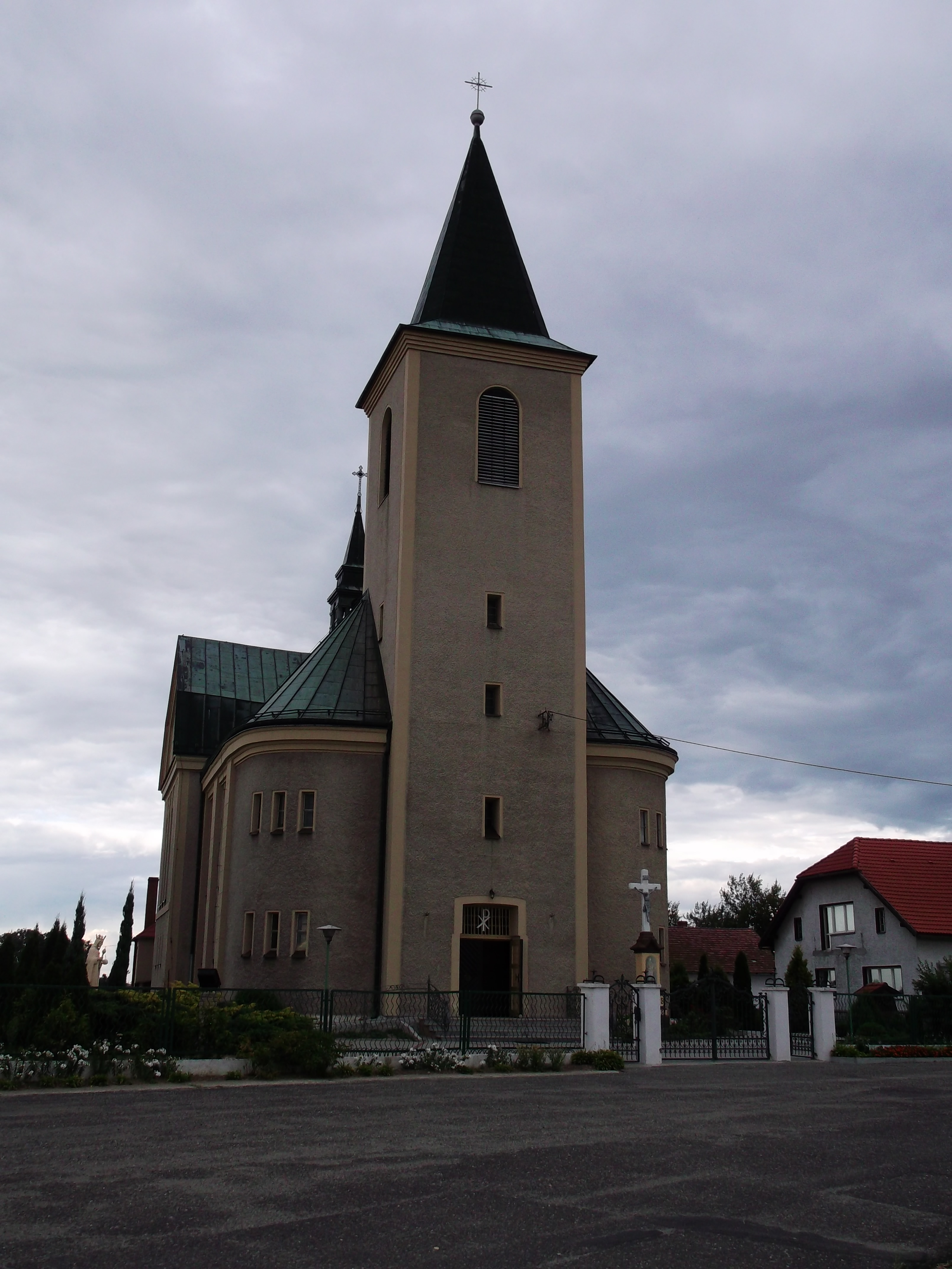 The front of St Anthony's Church, Roszowicki Las, Opole Voievodship, Poland